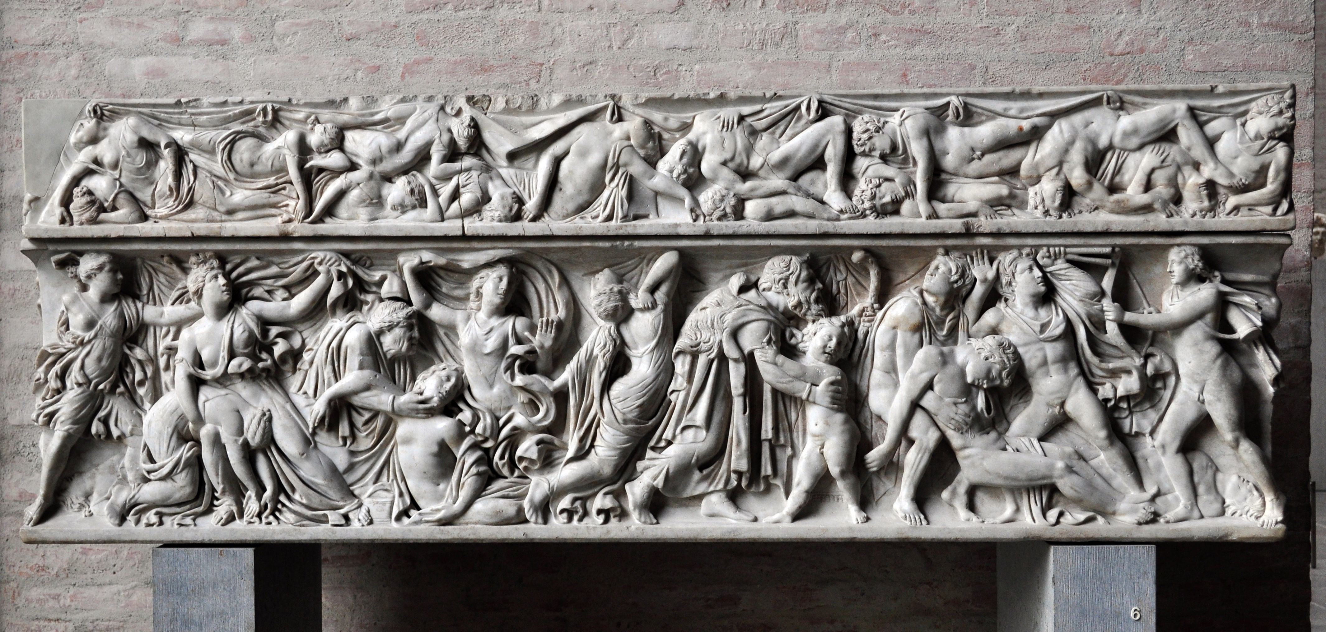 Roman sarcophagus showing the massacre of Niobe’s children. Ca 160. Glyptothek, Munich. Photo by Mont Allen.